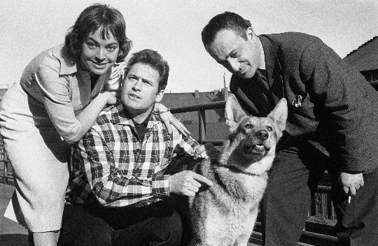 Phtograph of the Finnish actor Anneli Sauli (1932–) and the Austrian actor Carl Möhner (1921–2005) when shooting Zurück aus dem Weltall. The person to the right unknown.